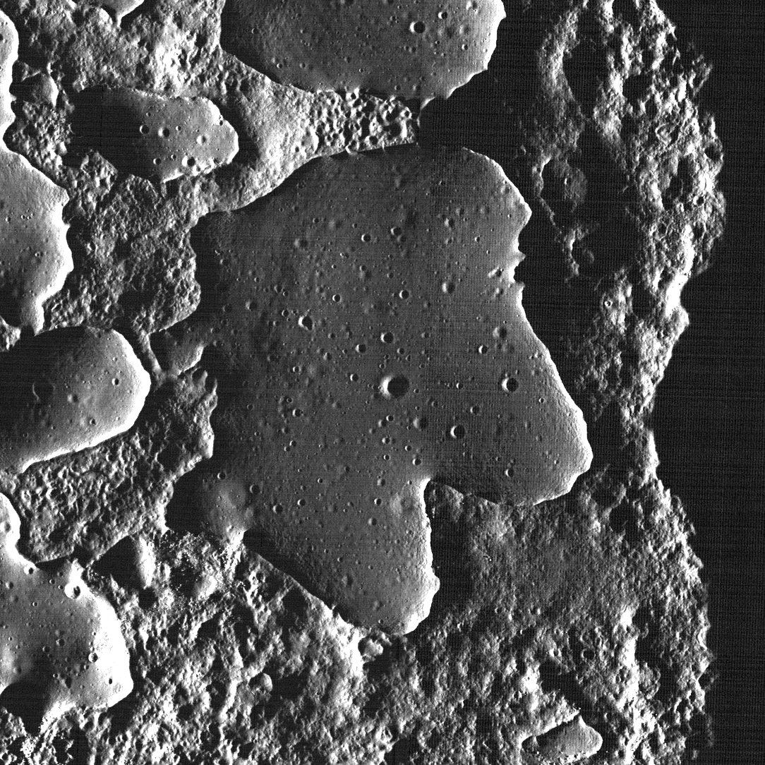 A hill named Mons Agnes on the Moon, in Lacus Felicitatis, in crater-like feature Ina (a map). Centered at 18.65°N, 5.33°E. Photo by Lunar Reconnaissance Orbiter, made with Narrow Angle Camera 24 December 2009 from altitude 45 km. Sun elevation is 6.6°.Width of the photo is 1.0 km, north is up.